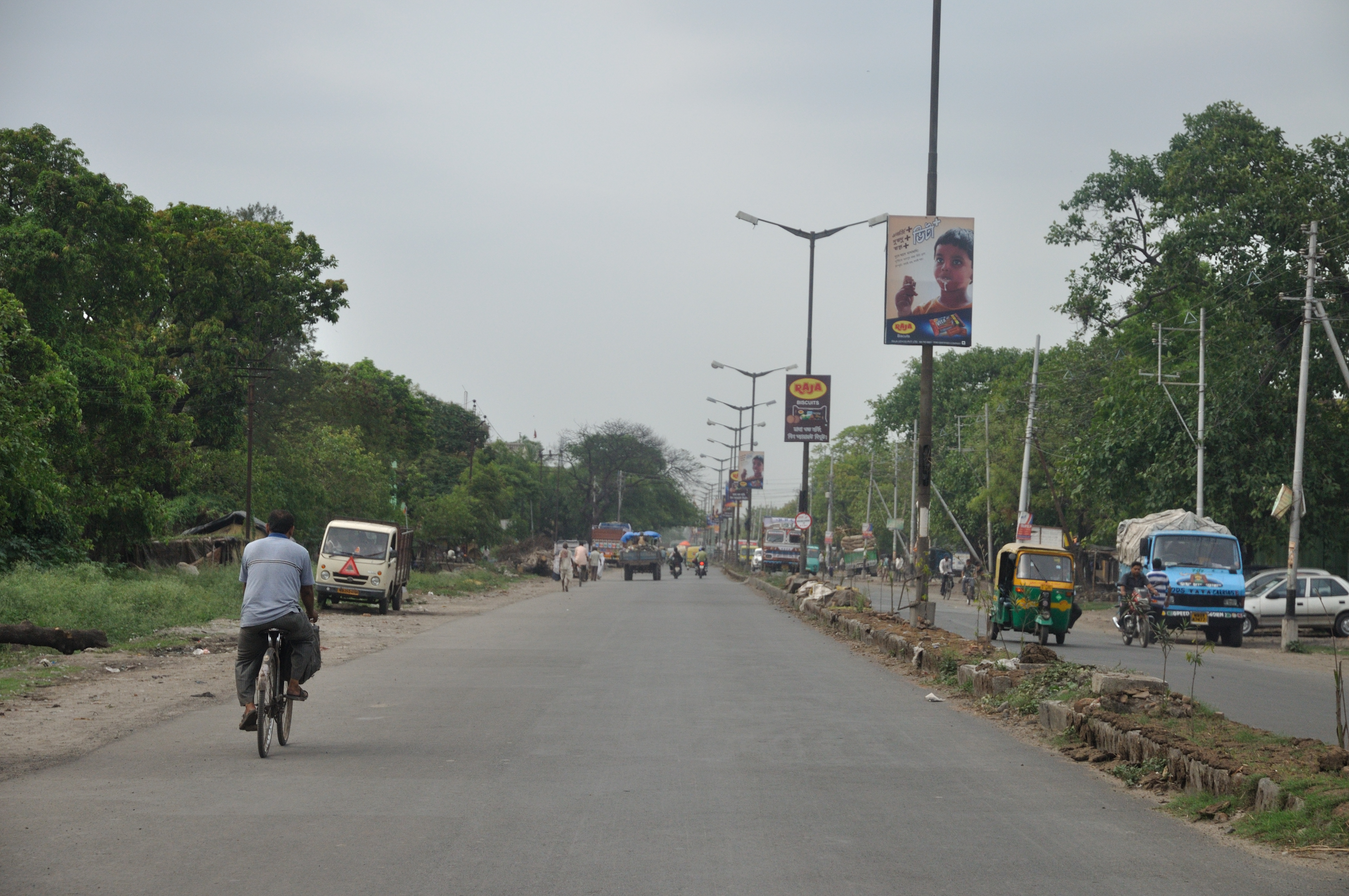 Photographed in greater Kolkata.